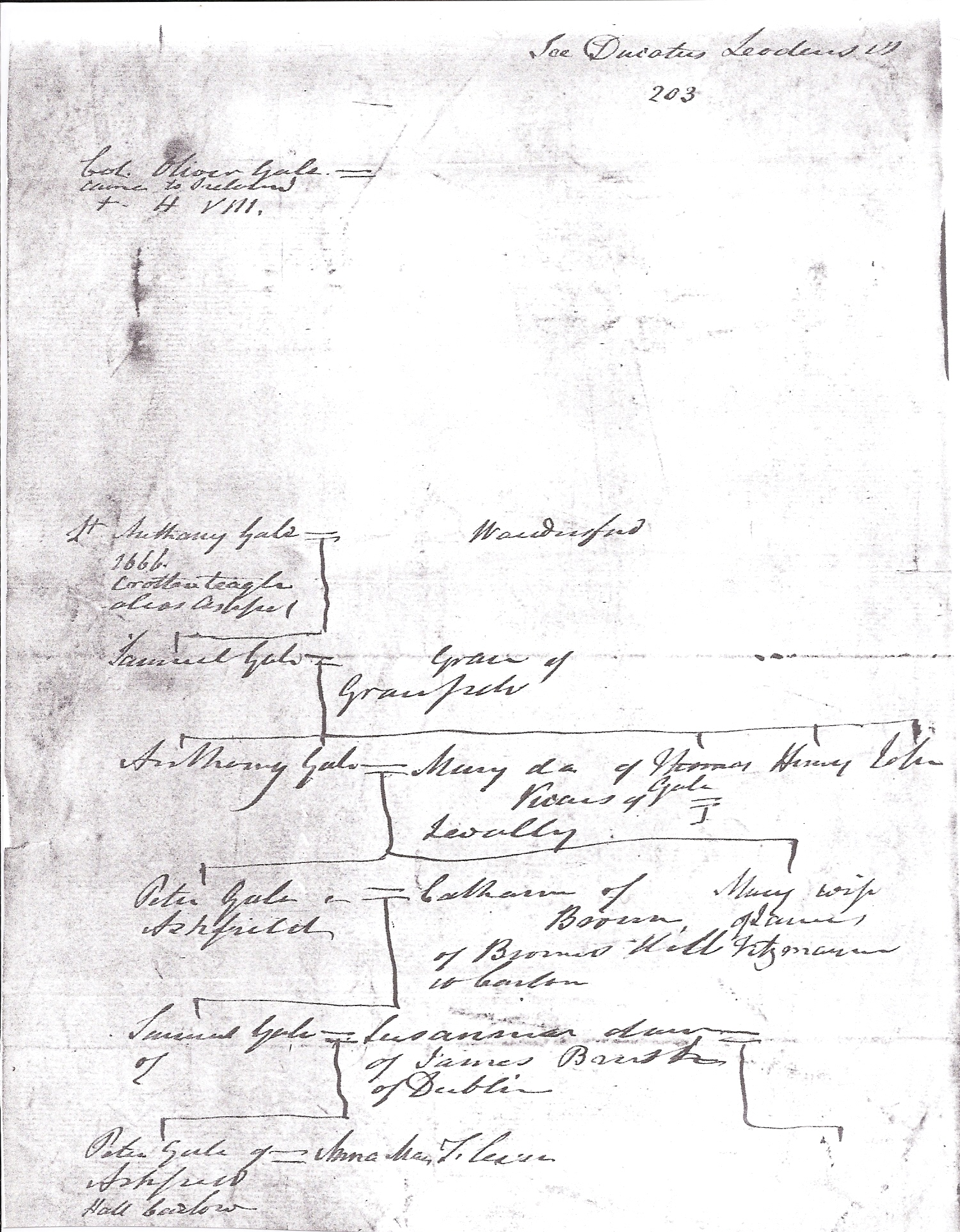 Sketch pedigree drawn by Sir William Betham of the lineage of the family of the Ashfield Gales